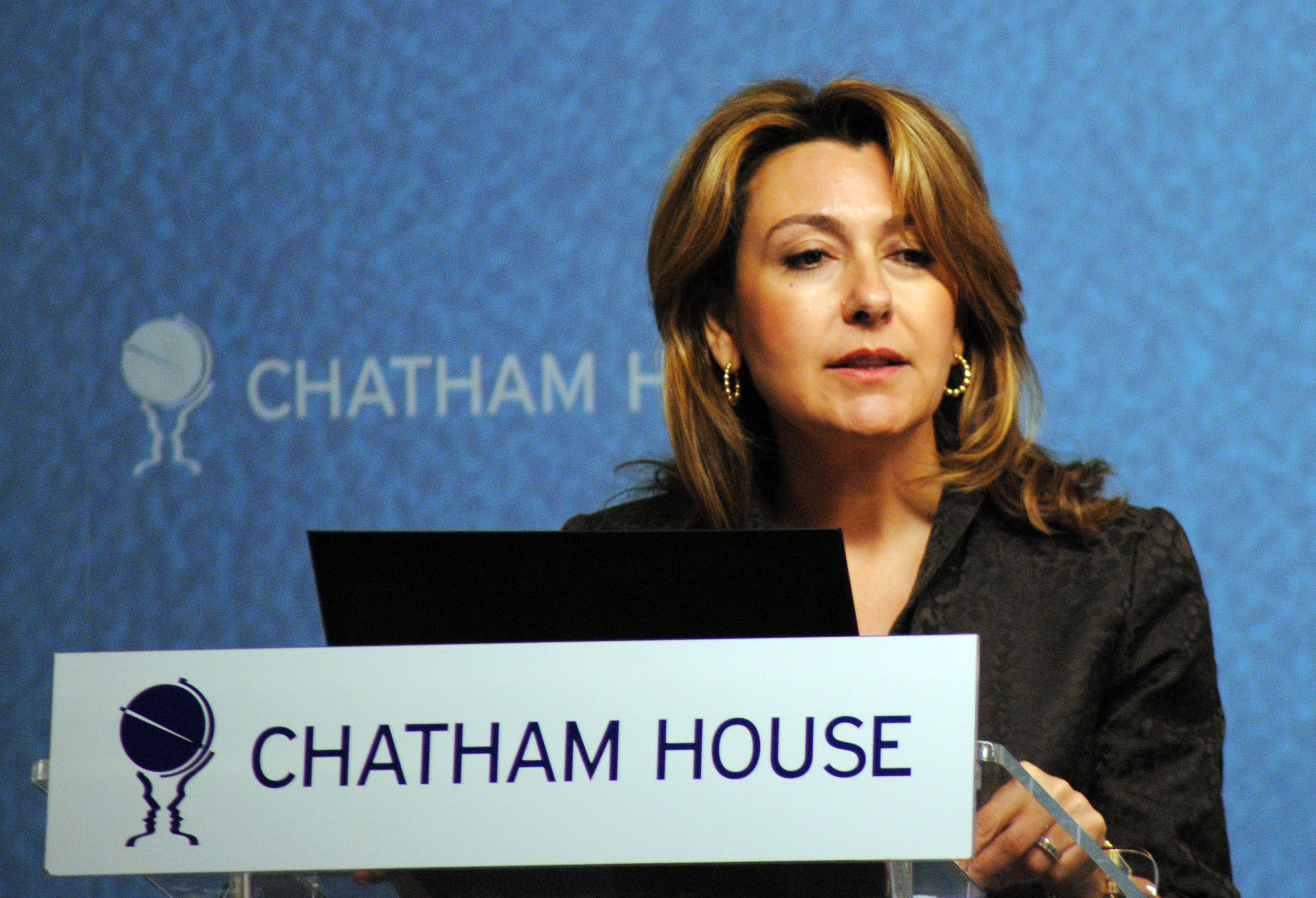 Women and Power in the Middle East, 30 April 2013 cht.hm/ZjDI9P